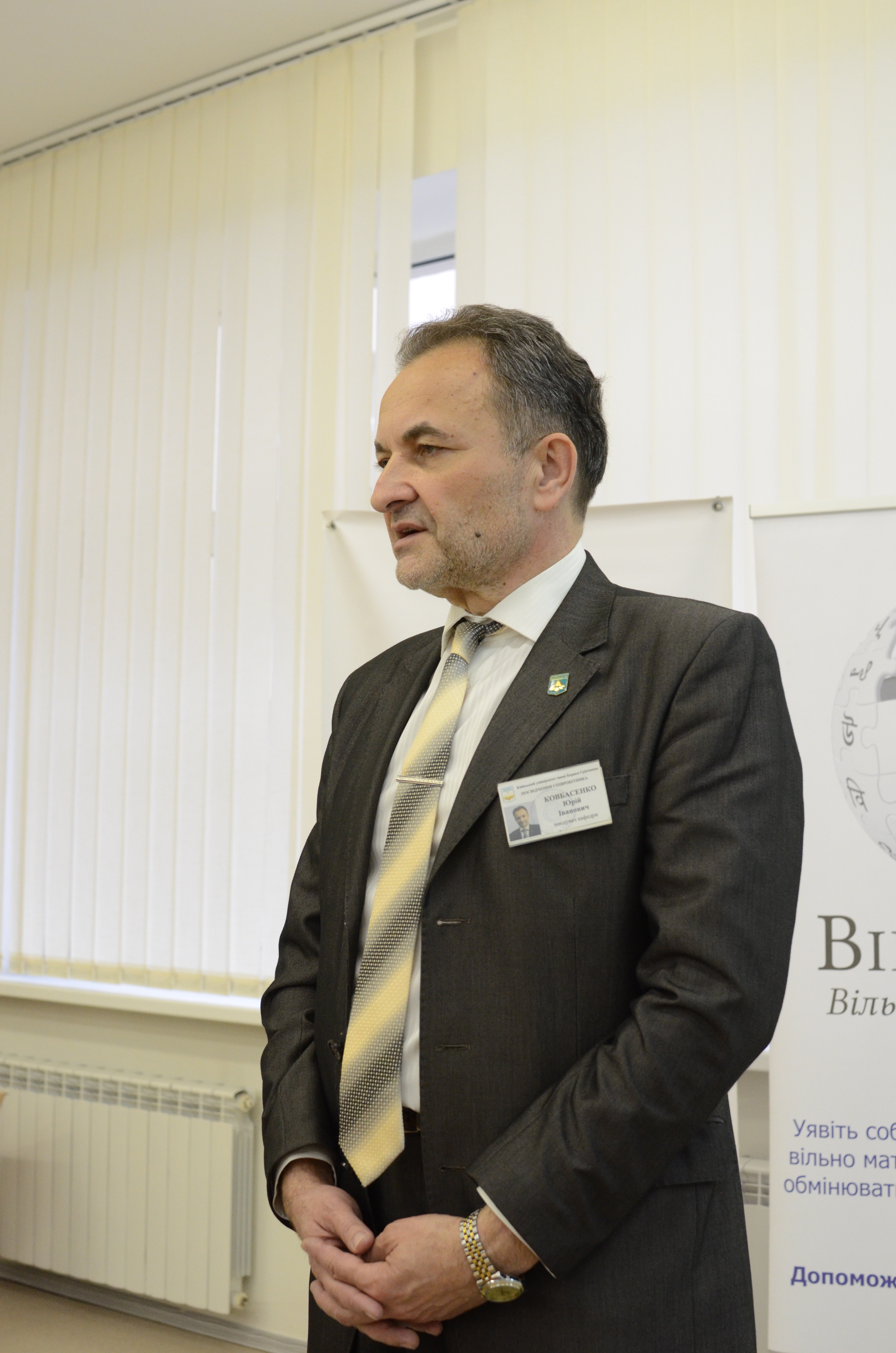 WMUA Wikitraining For Teachers 15 April 2016